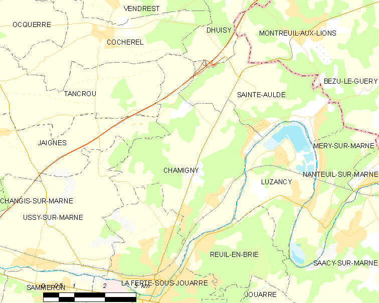 Map of French municipality Chamigny